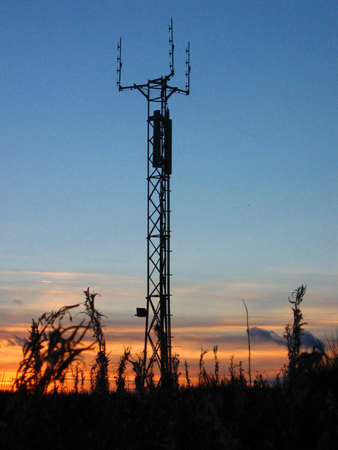 Communication mast on Ardbeck Hill Peterculter